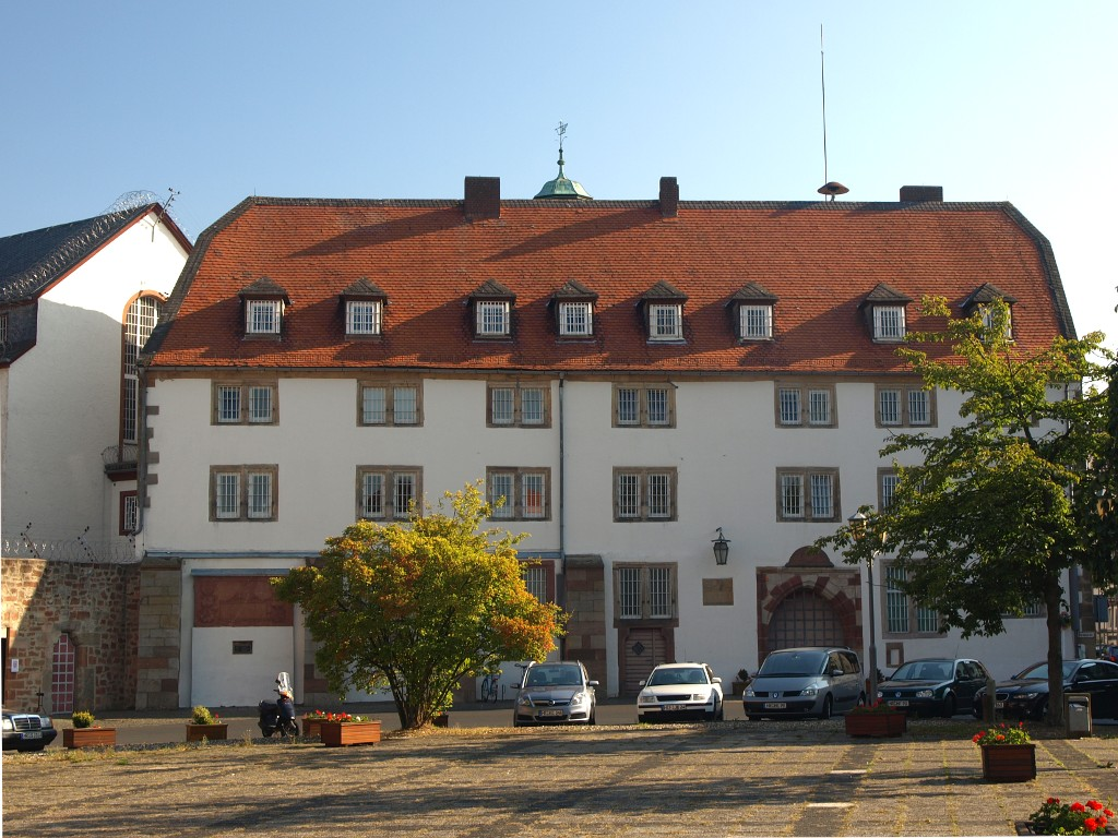 Governors wing of Castle Ziegenhain